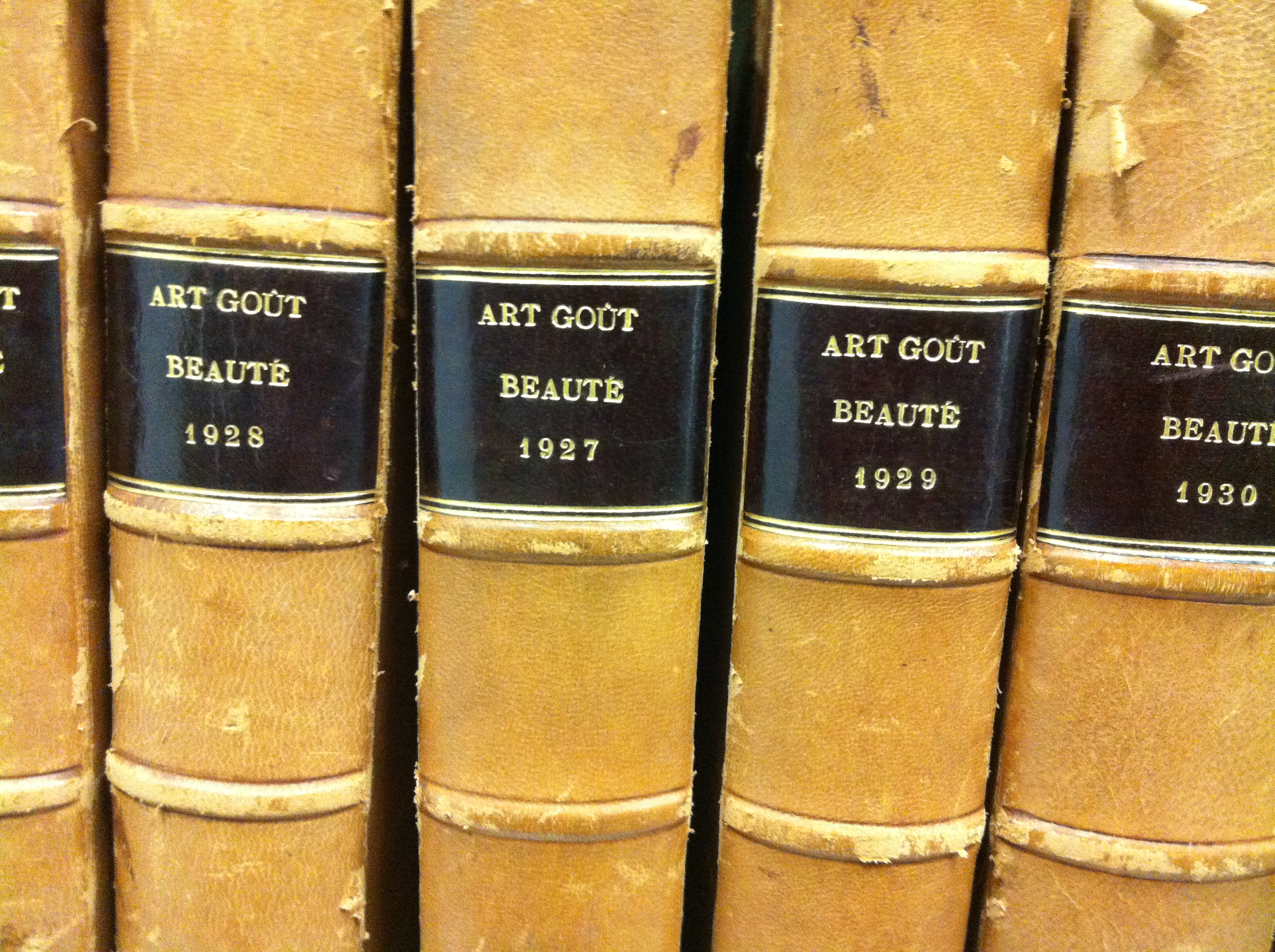 Edit-a-thon and Backstage Pass at Museu del Disseny de Barcelona- April 2014